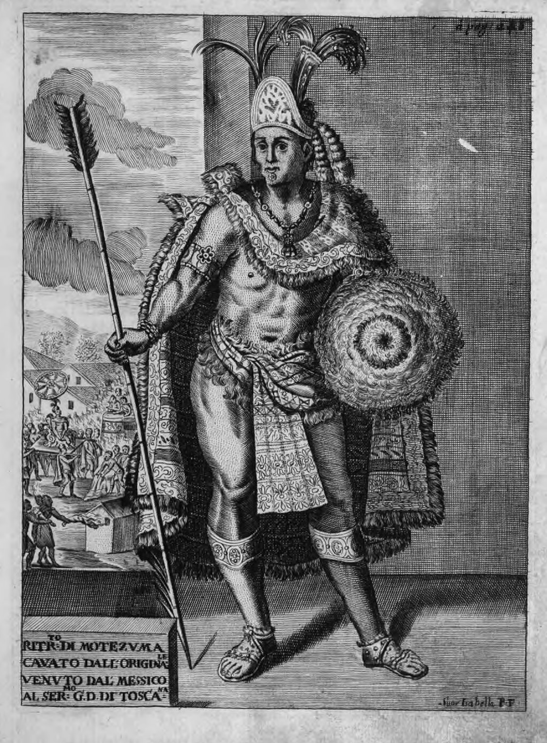 Montezuma II